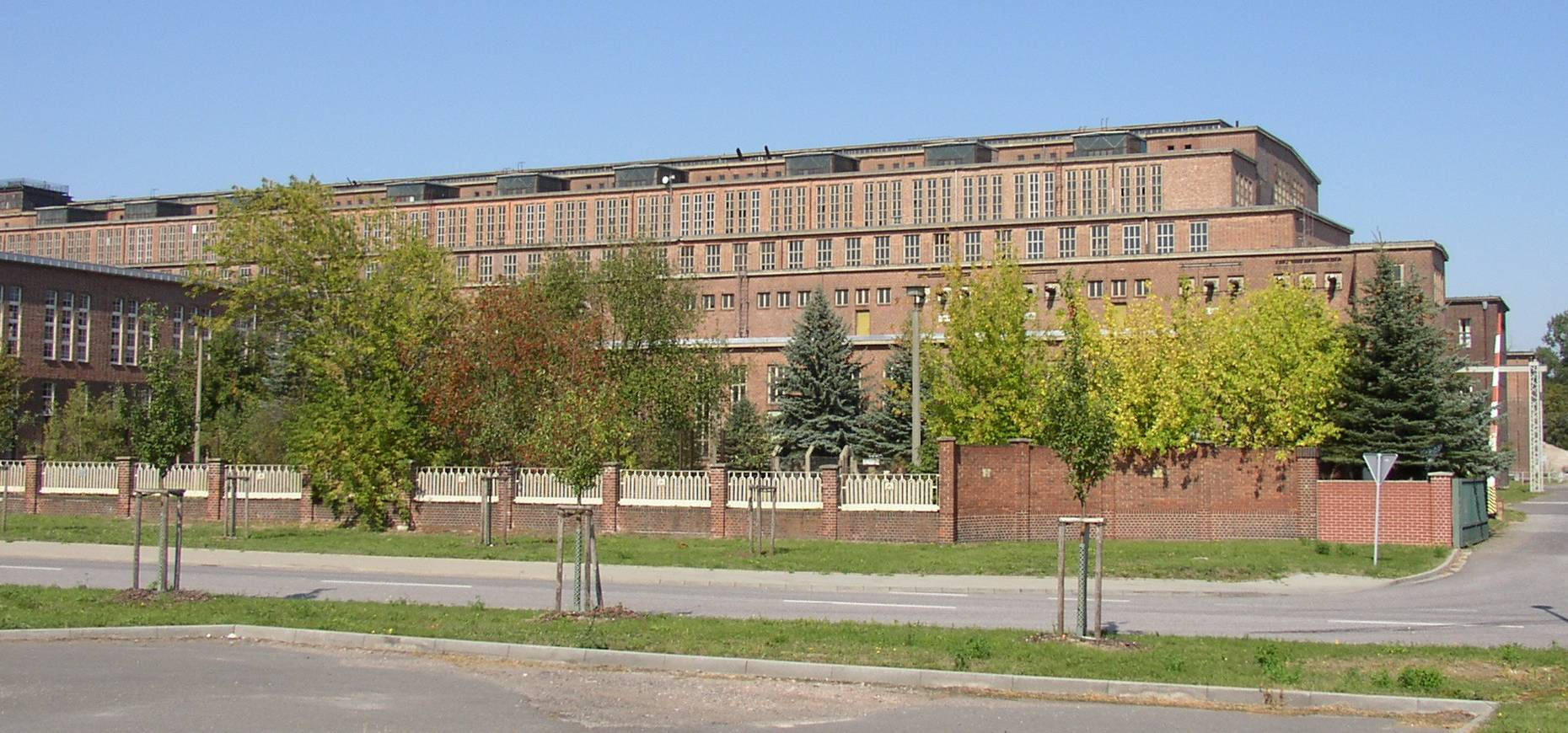 Coal power station in Vockerode in Saxony-Anhalt, Germany